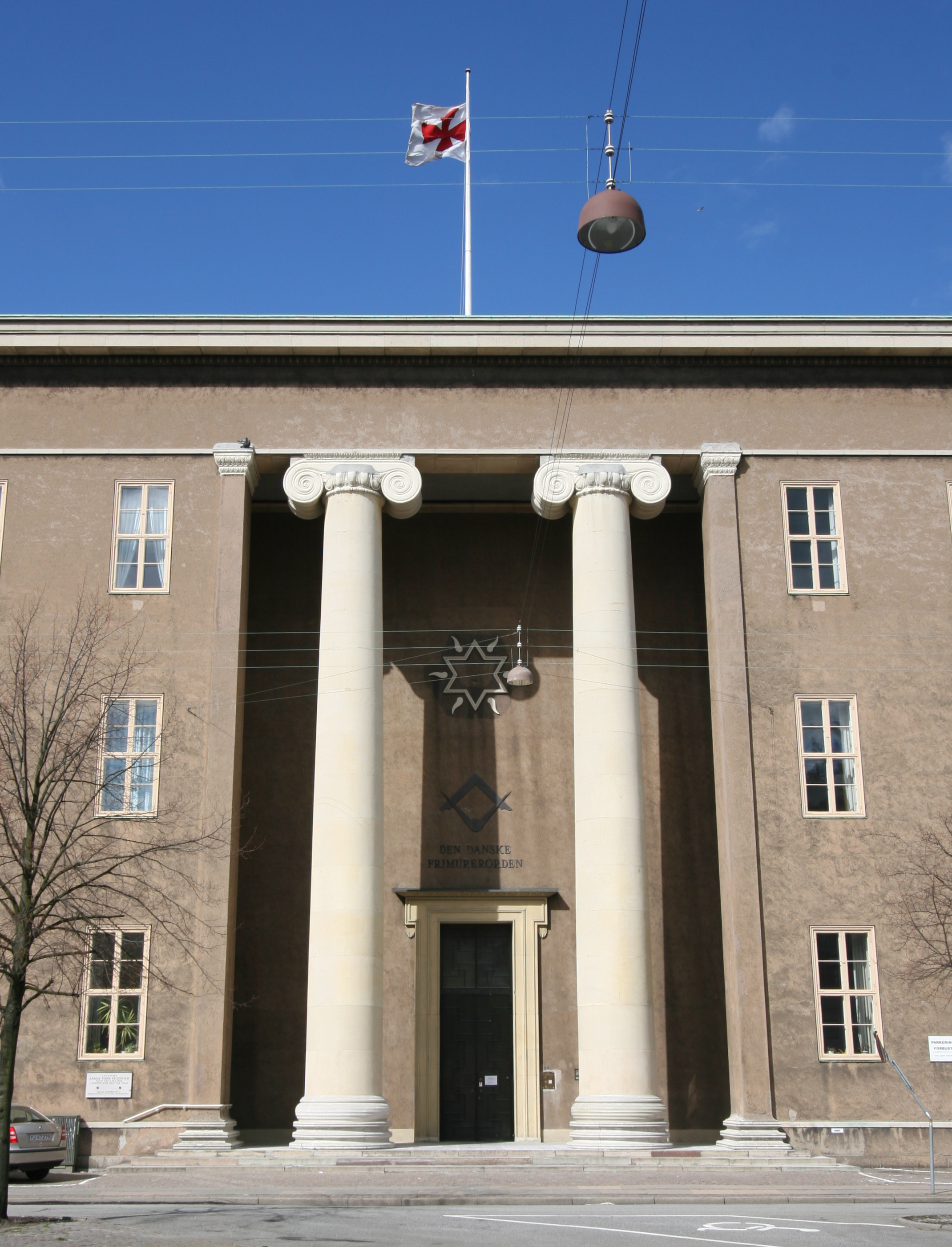 The Freemason Lodge, Copenhagen, Denmark (Portal)